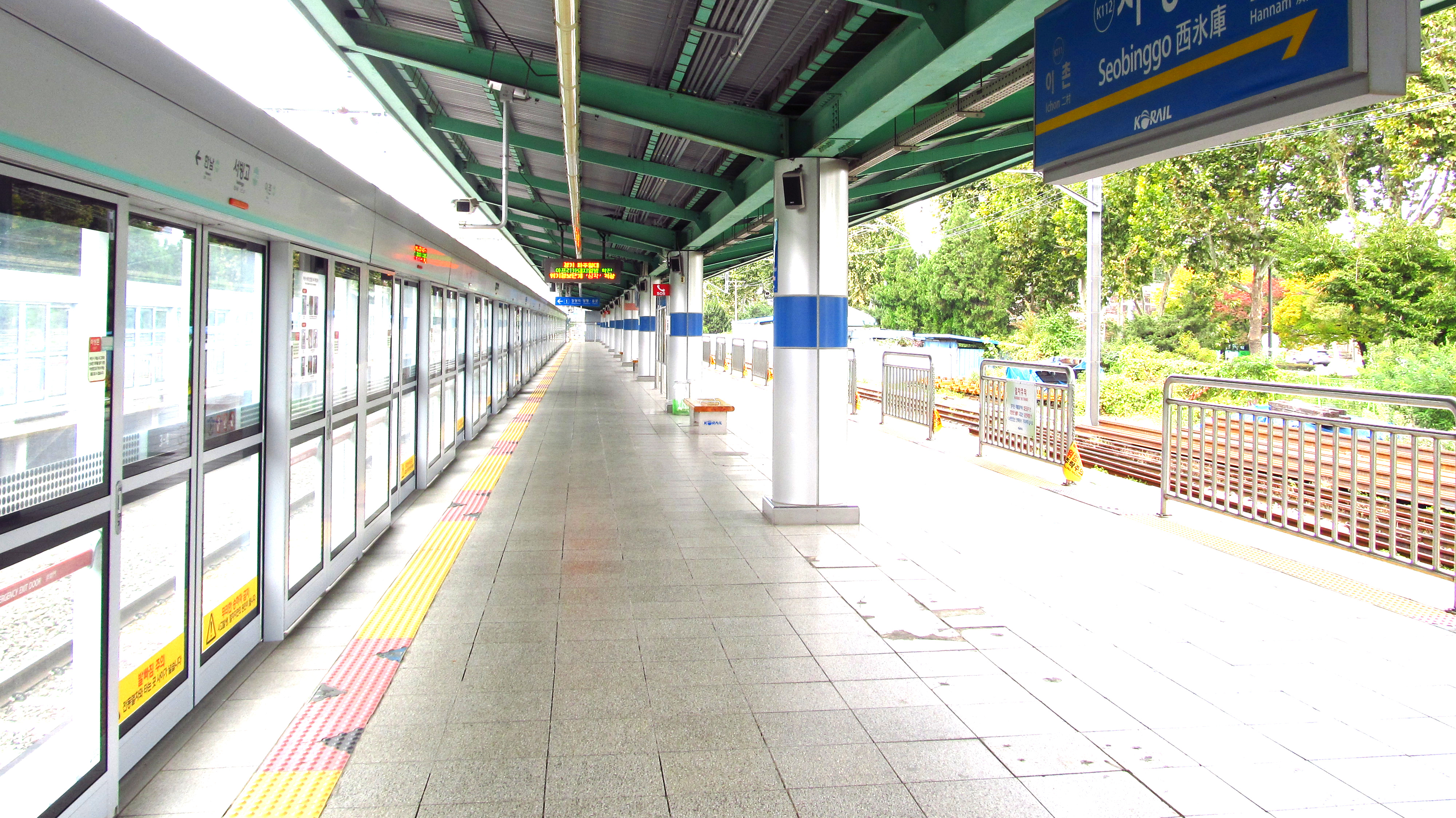 The Wangsimni-bound platform at Seobinggo Station on the Gyeongui-Jungang Line in Yongsan-gu, Seoul, Republic of Korea(South Korea)